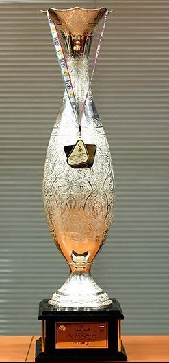 Iran's Hazfi Cup glory